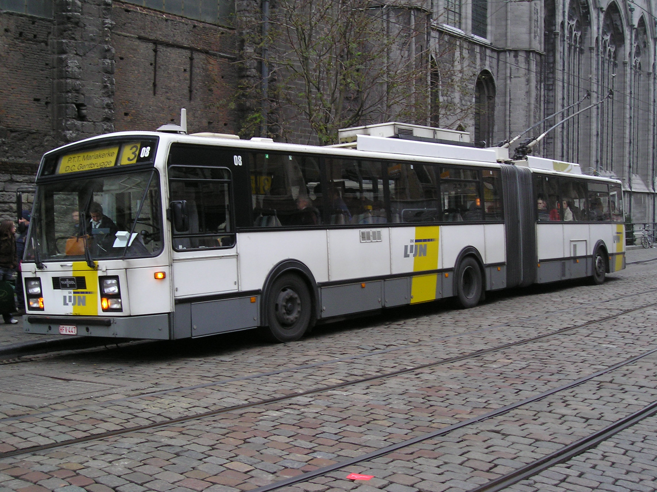 Trolleybus waits for passengers at the trolleybus stop near St. Nicolas Cathedral in Ghent.